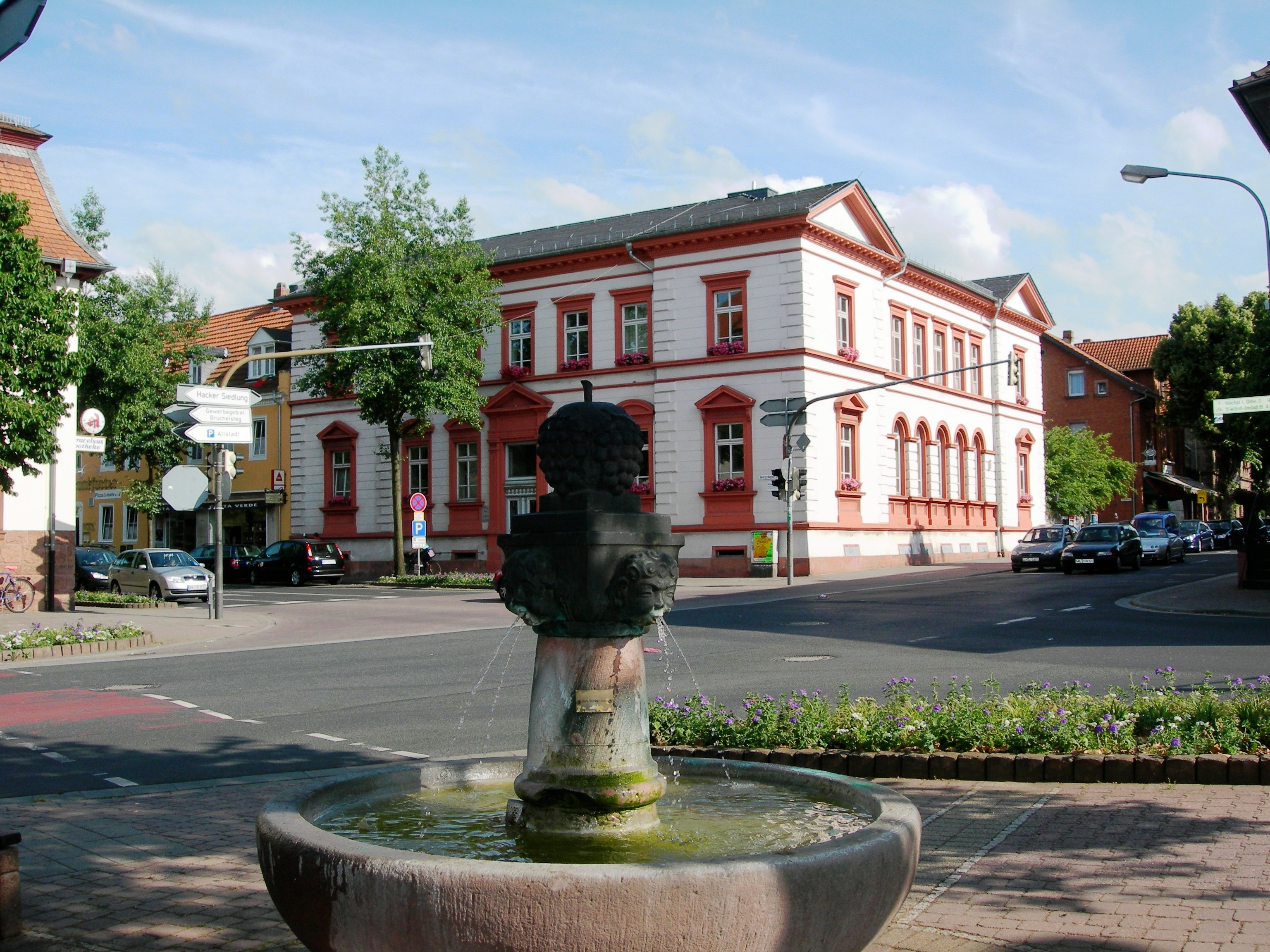 Groß-Umstadt (Hesse), former court, now seat of the town's administration